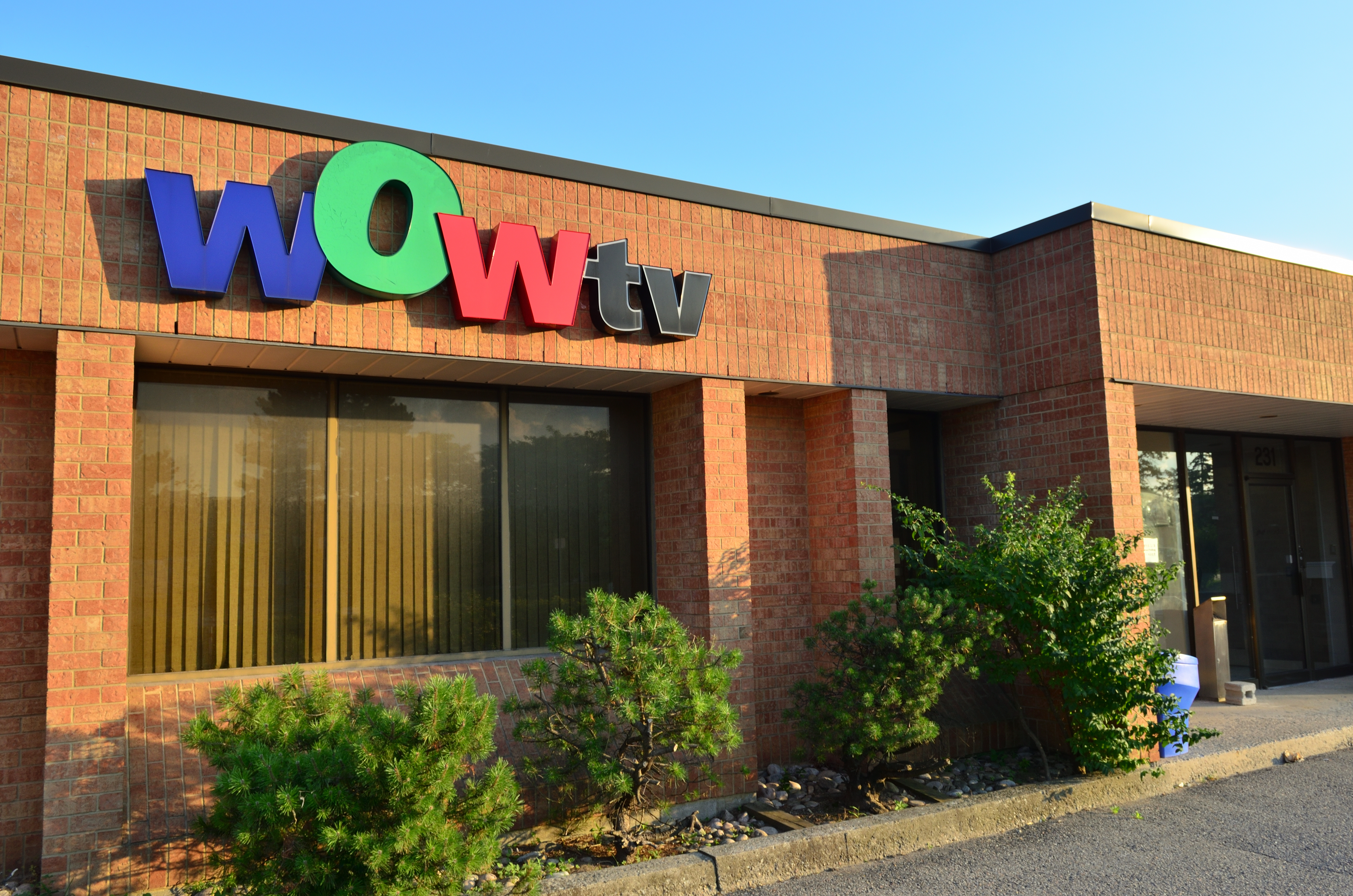 WOWtv Markham office - Address: 221 Amber Street, Markham ON L3R 3J7